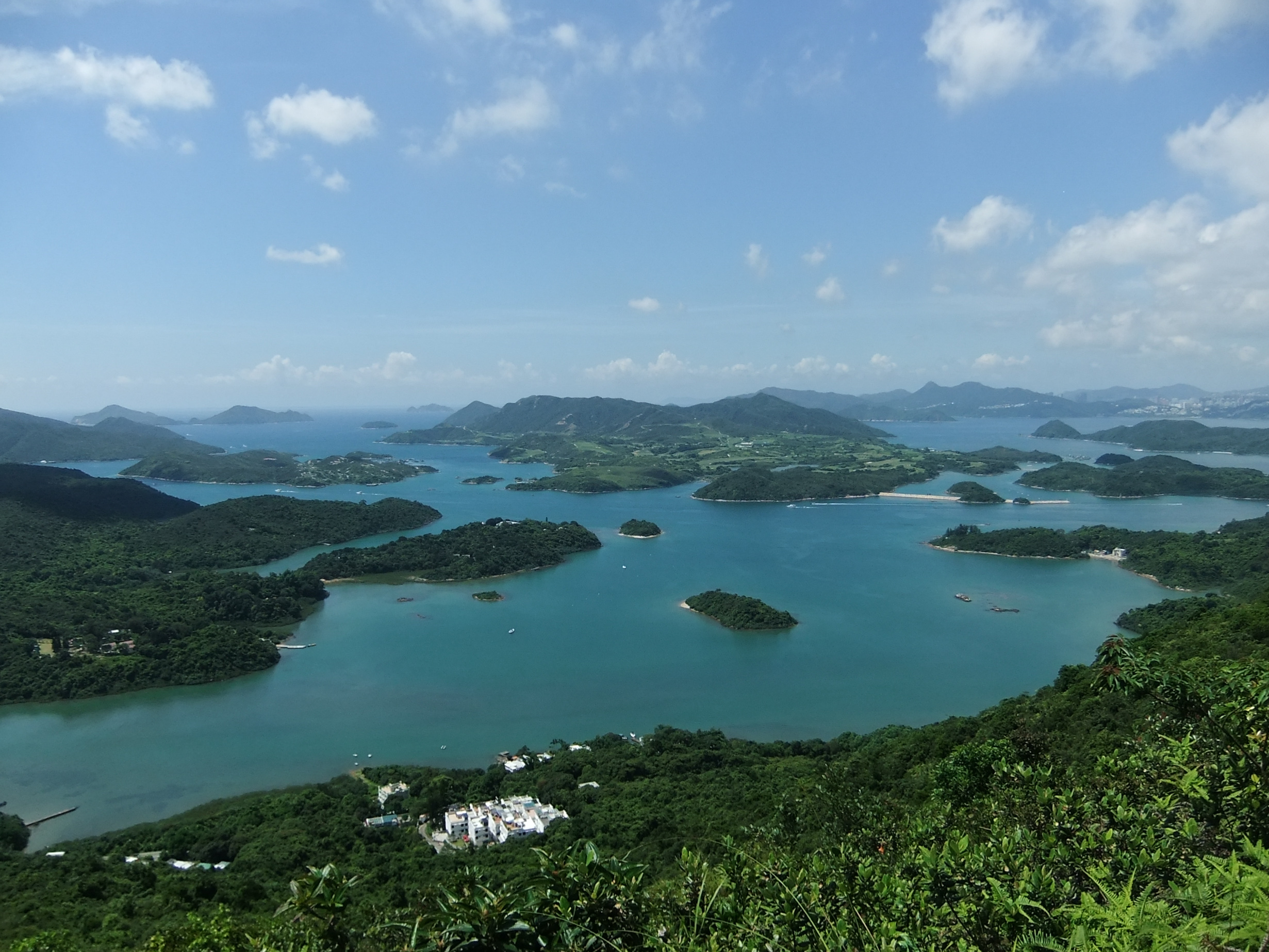 View of Tsam Chuk Wan from the peak of Tai Tun (317m)